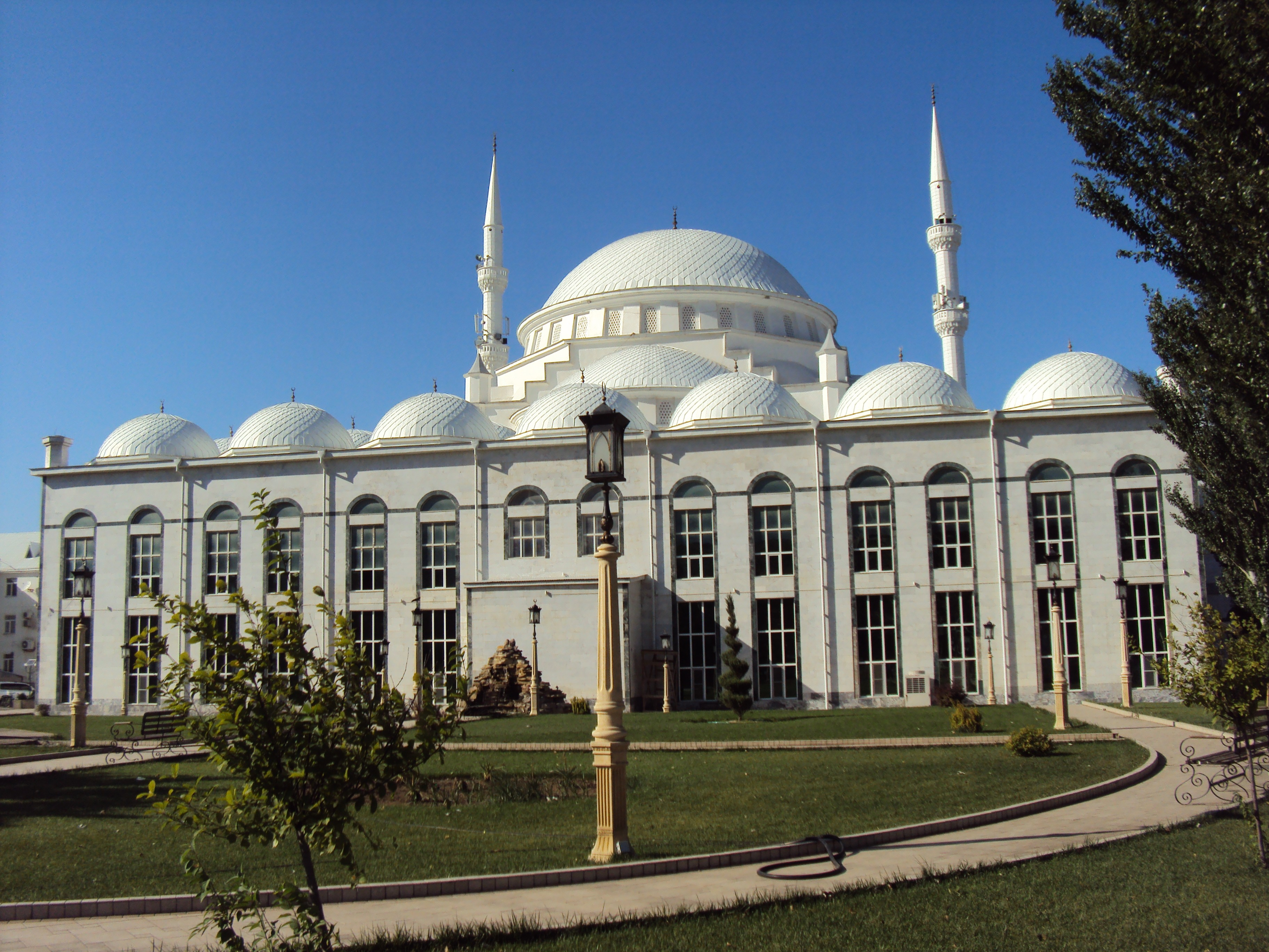 Central mosque of Makhachkala - Dagestan Republic (Russian Federation)